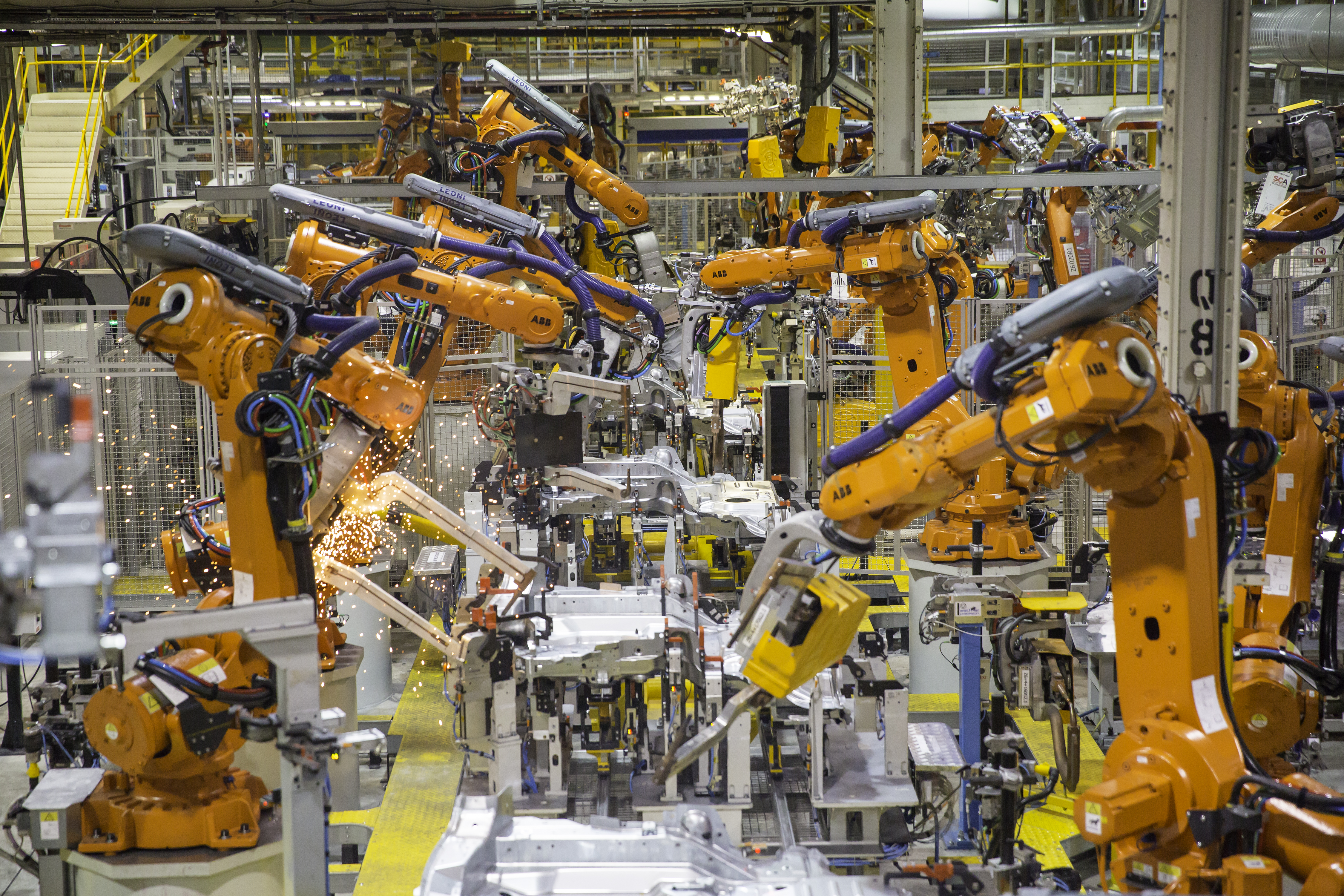 The first production Discovery Sport has rolled off Land Rover's production line in Halewood, UK. The car will now make its way to Virgin Galactic's headquarters, to be used by the team as they continue to prepare for the launch of the world's first commercial spaceline.